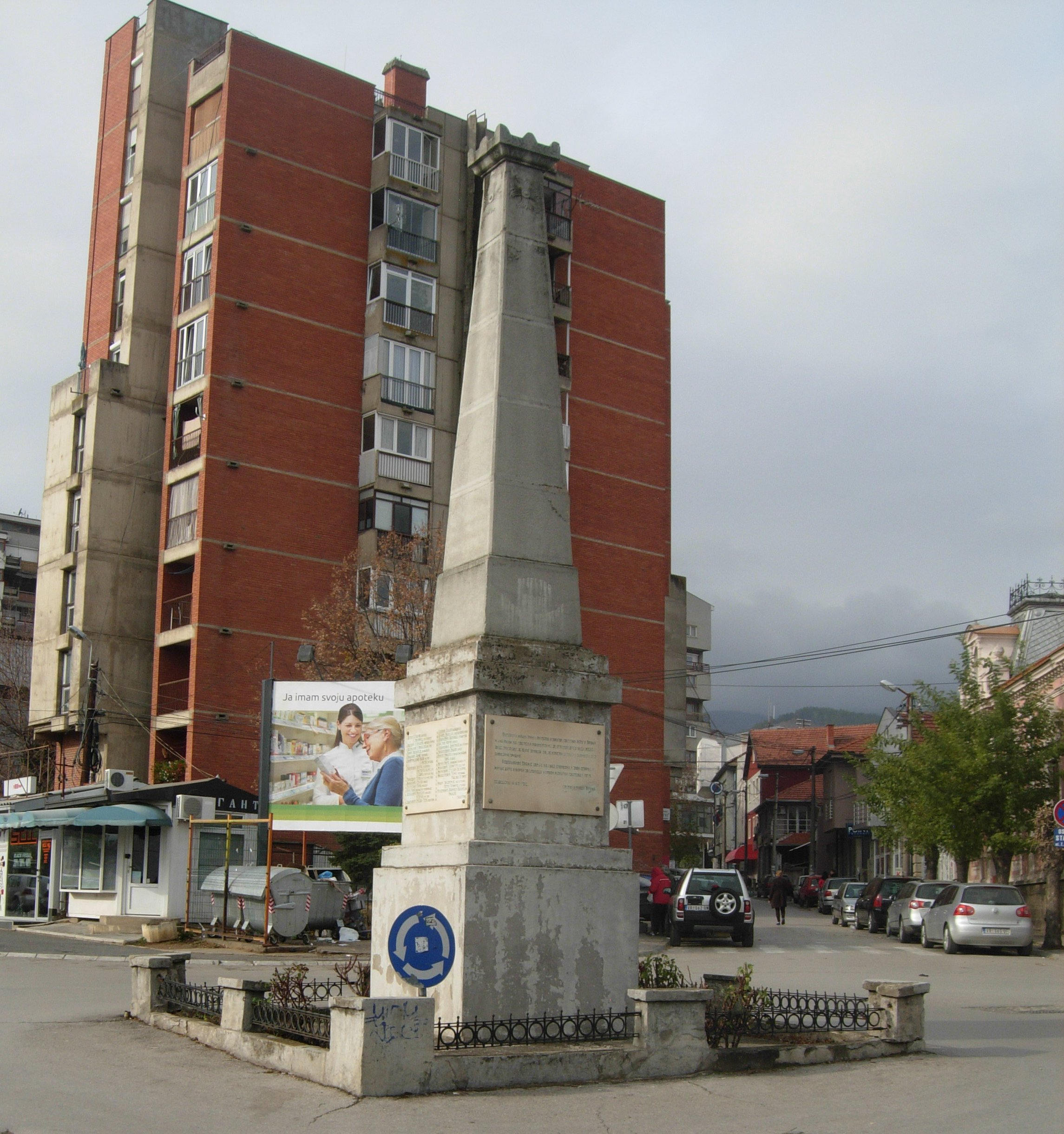 Spomenik žrtvama bugarskih okupatora u Vranju